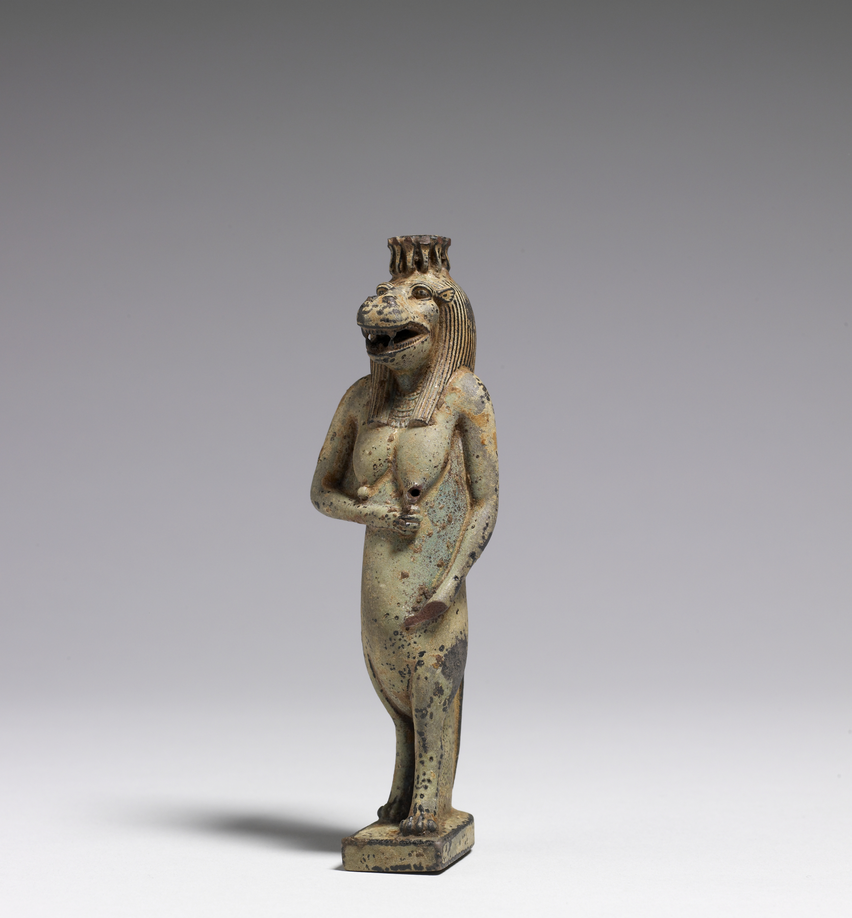 Taweret, meaning "the Great" (Greek version: Thoeris), is the name of a goddess who is depicted as a standing upright pregnant hippopotamus with a crocodile back and tail, lion paws, and in most cases human arms. Taweret is a protective deity, particularly connected to pregnancy and birth. Amulets in the shape of Taweret became popular in the Third Intermediate period. This figure is large for an amulet and displays the goddess wearing a long wig and modius (calathos) with uraei (cobra serpents) on her head. While the standard posture of Taweret is with her arms hanging down beside her body, this figure shows her right arm resting on her belly. And the glaze is almost gone. It is very difficult to read what the original color of the glaze was.